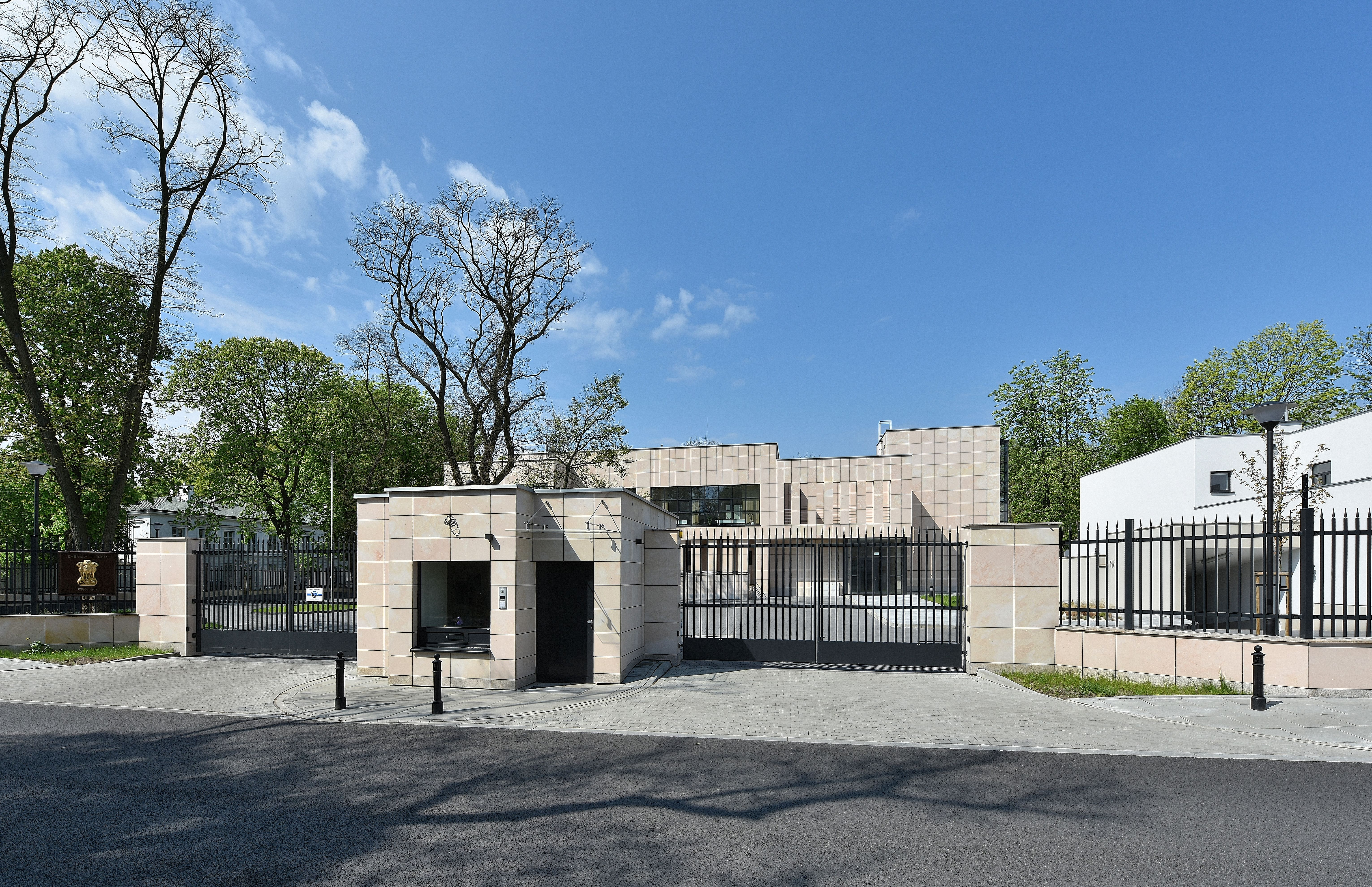 Embassy of India viewed from Kawalerii Street